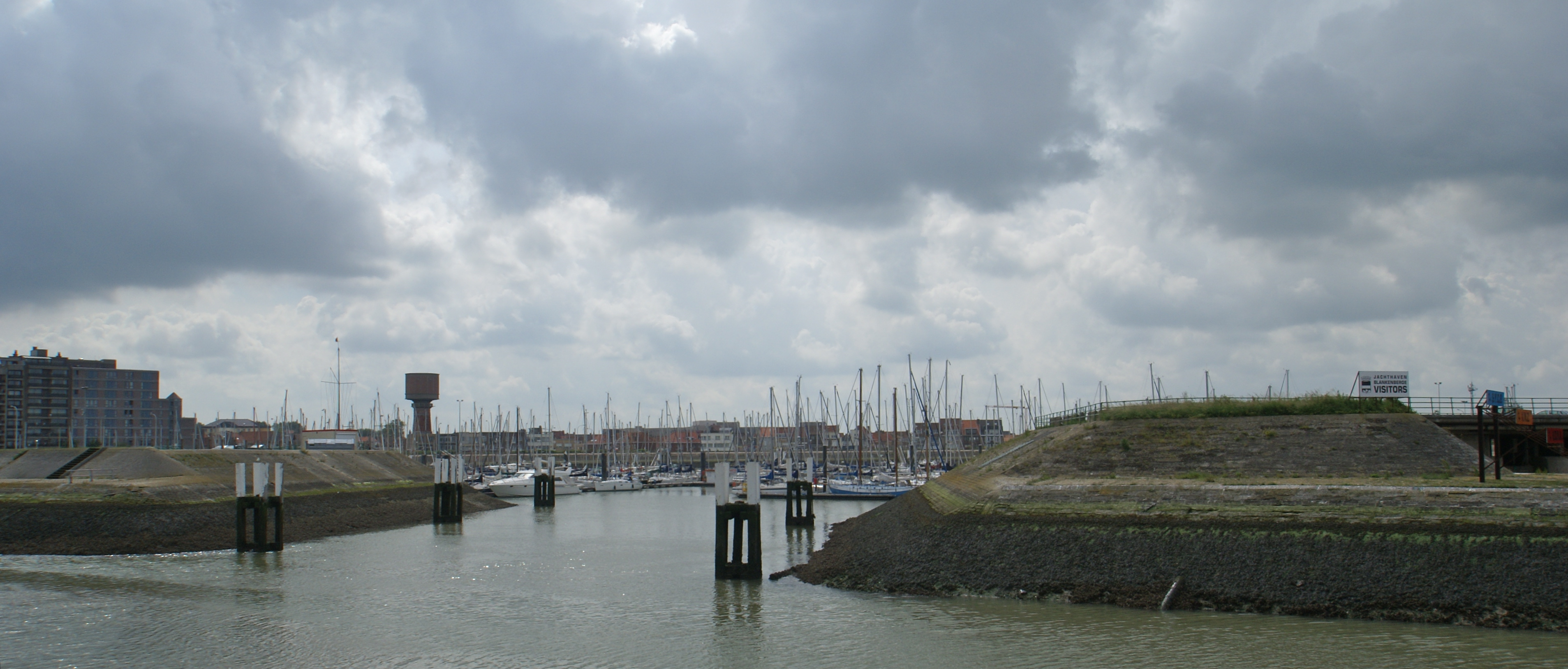 Blankenberge (Belgium): The entrance of the extension of the marina